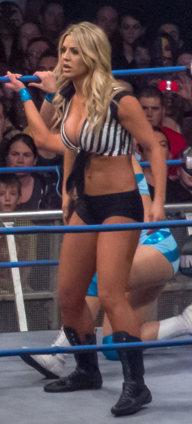 Taryn Terrell refereeing at the Impact! TV Tapings in Wembley, England on January 26, 2013.